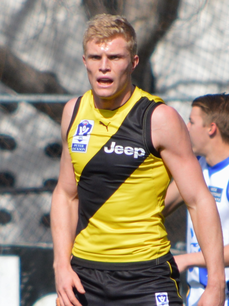 Ryan Garthwaite with Richmond's VFL team in August 2017